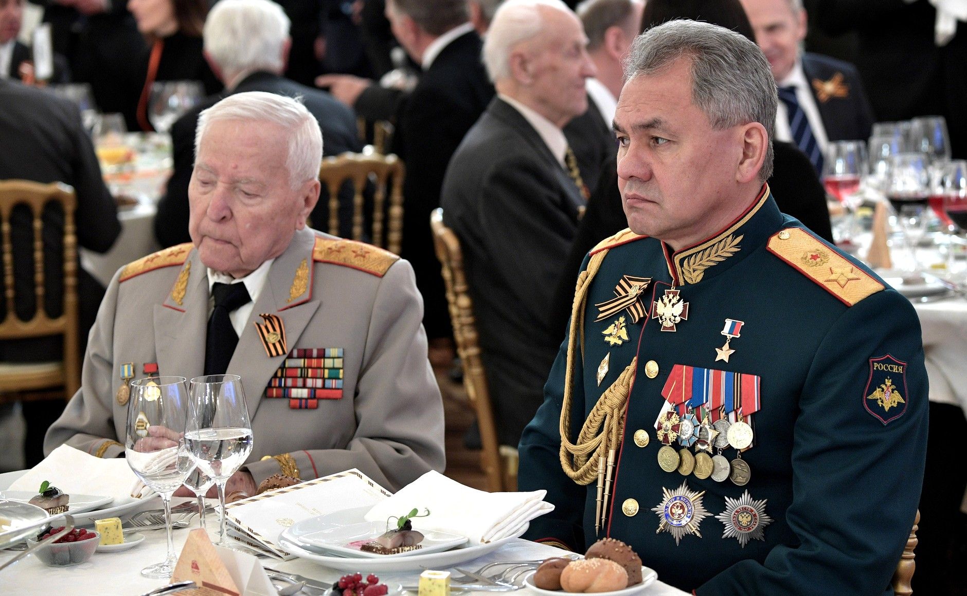 Victory Day reception in the Kremlin 2017-05-09